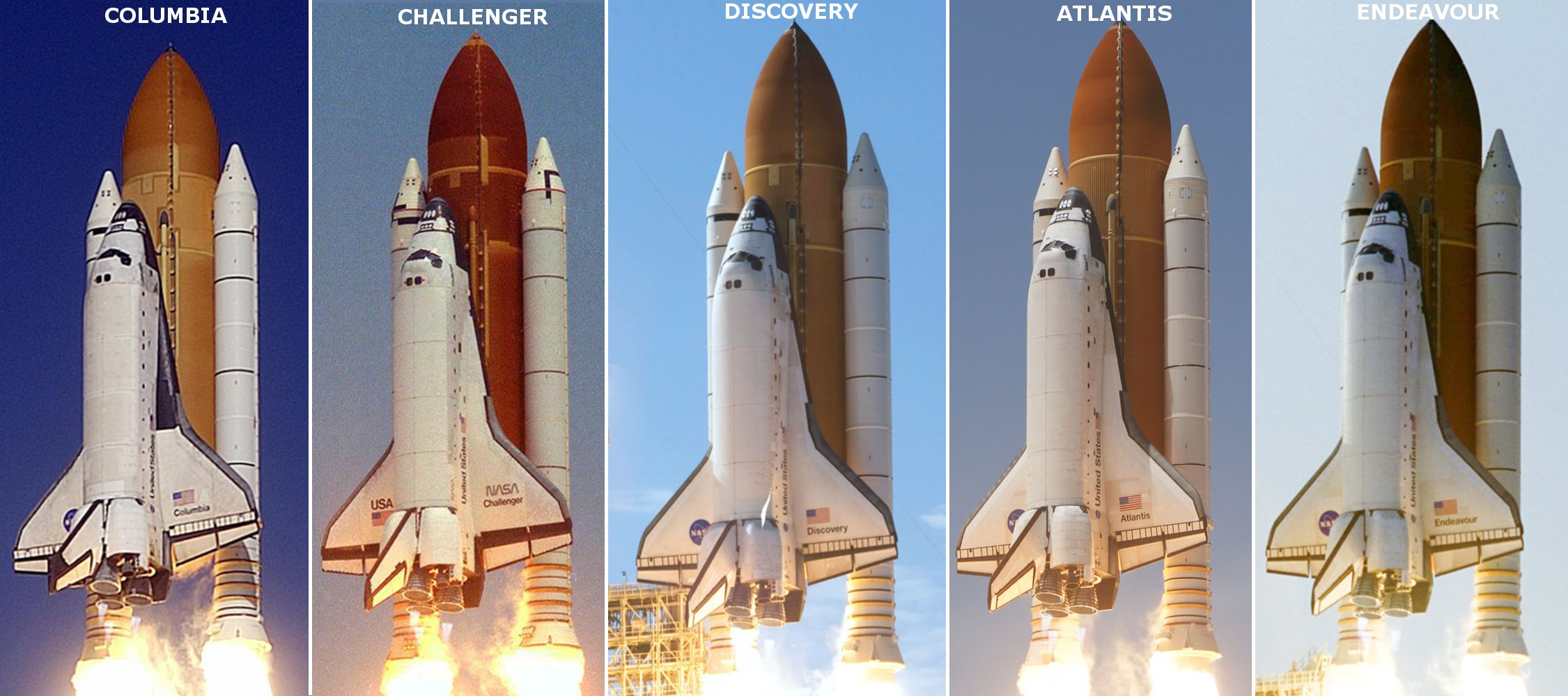 Launches of Columbia, Challenger, Discovery, Atlantis, Endeavour Space Shuttles. Font: Sans Bold Font size: 18